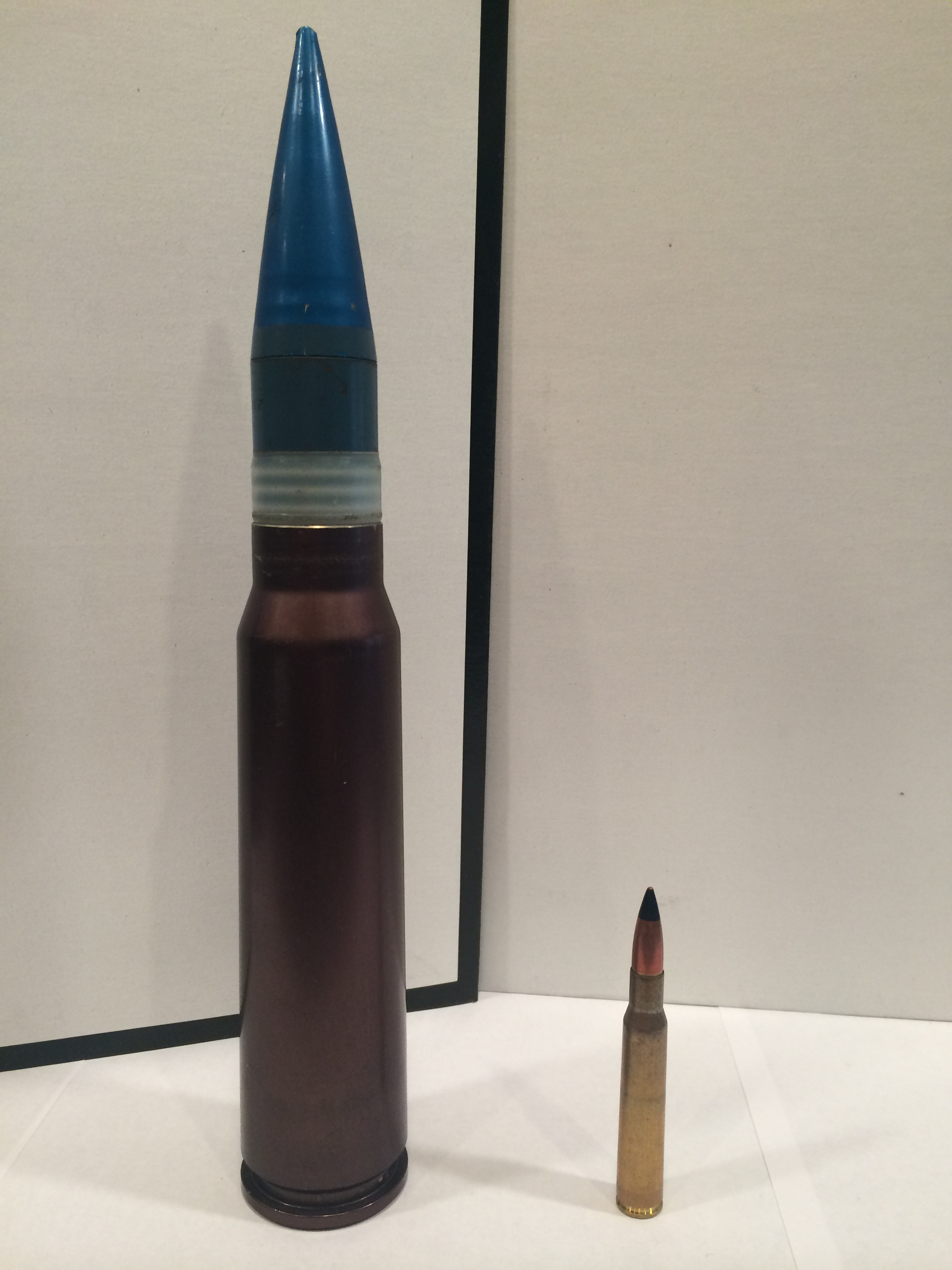 Photo of a 30mm PGU-15/B target practice round, commonly used in the GAU-8 Avenger, next to a .30-06 Springfield FMJ round.